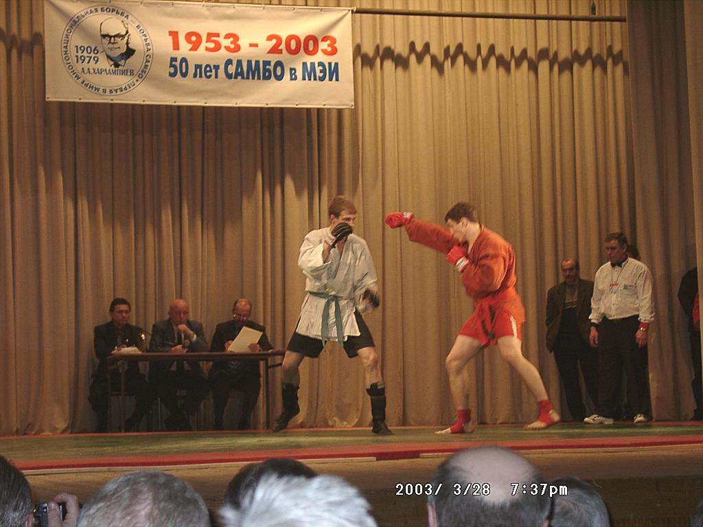 Ilya Tsipursky (center - at the table) - the chief judge of the competition in Combat Sambo in the MEI. March 28, 2003. Picture taken VD Ilyin